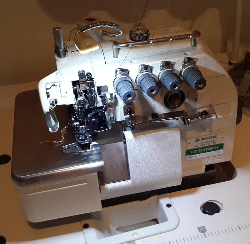 This is my own work